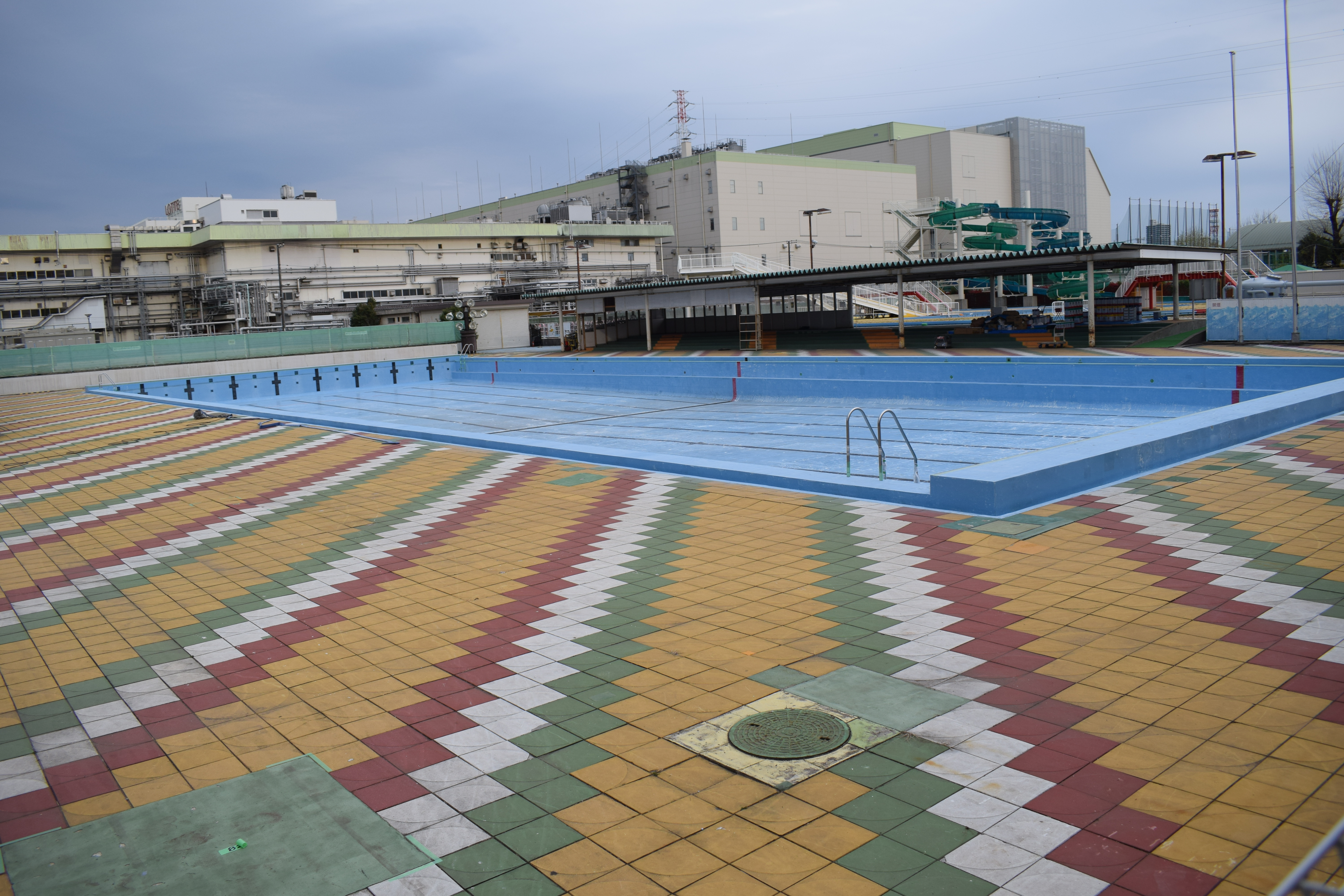 Numakage Civil Pool